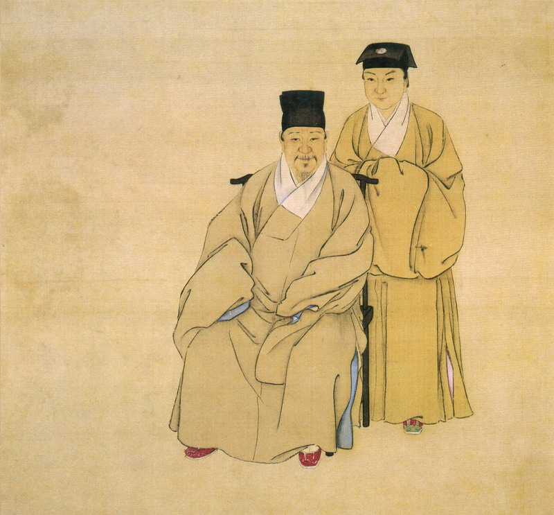 Xia Yunyi, politician of the late Ming Dynasty.